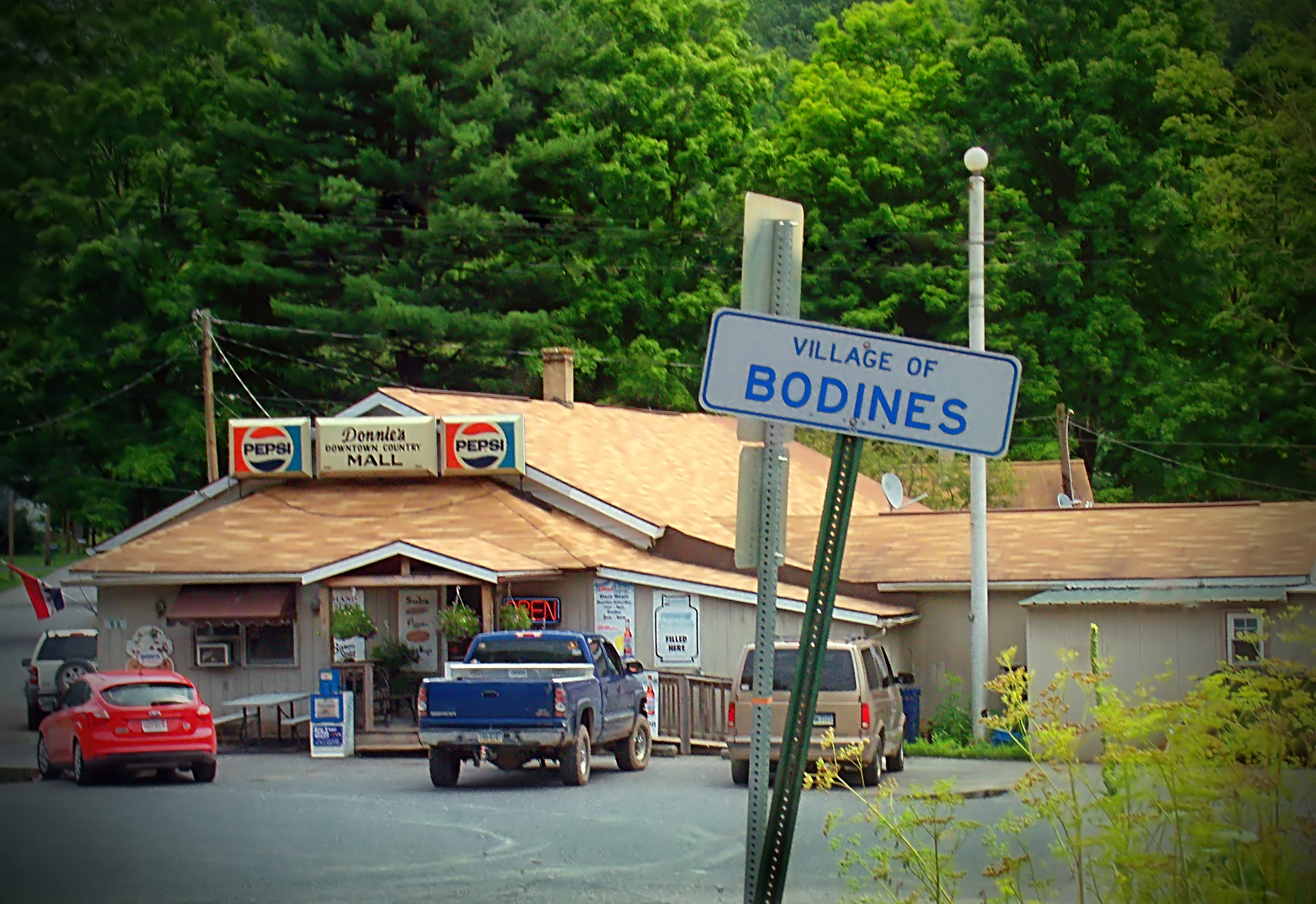 Donnie's Downtown Country Mall in Bodines, Lewis Township, Lycoming County, Pennsylvania